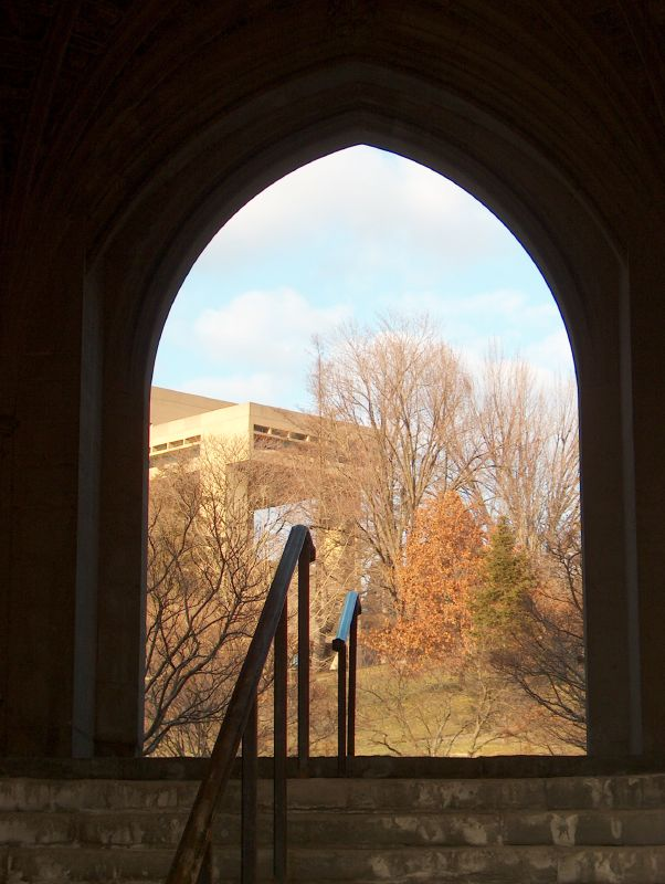 The Johnson Art Museum seen from the West Campus Gothics at Cornell University. Source: [1], March 15, 2005